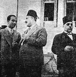 Nasib al-Bakri in center